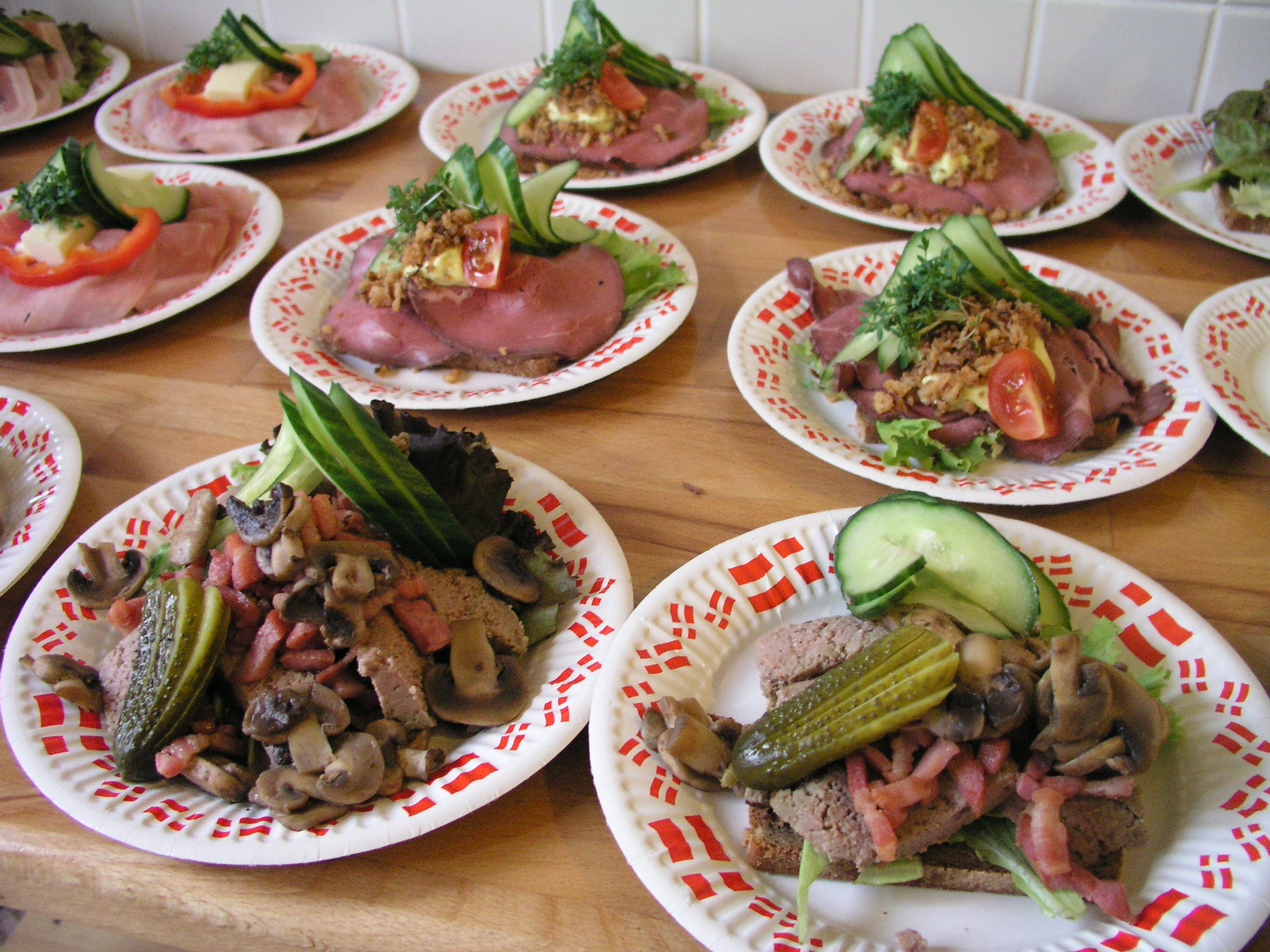 Several Danish open sandwiches (smørrebrød) on a table.